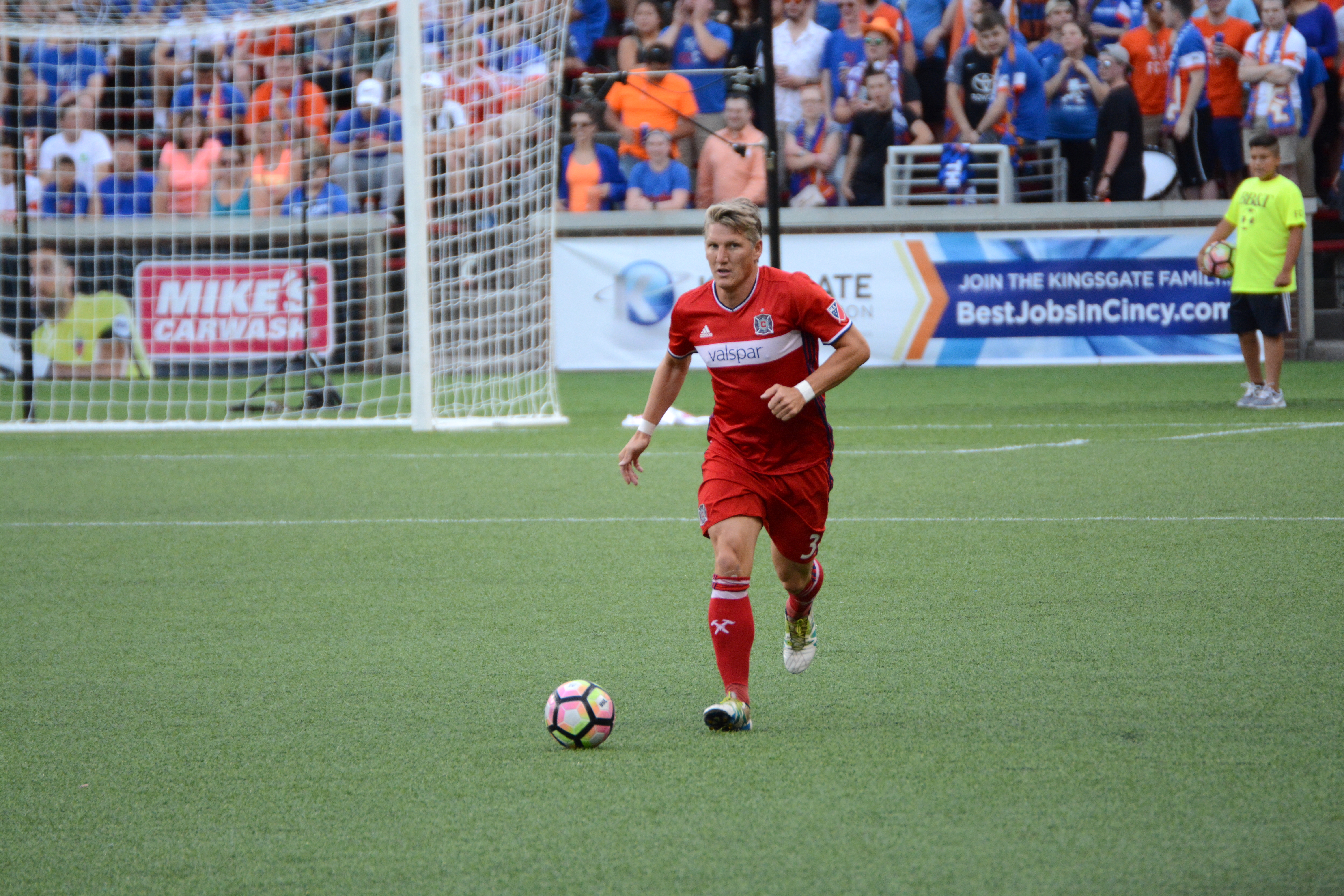 Taken at a U.S. Open Cup match between FC Cincinnati and Chicago Fire SC at Nippert Stadium in Cincinnati, Ohio on June 28, 2017.